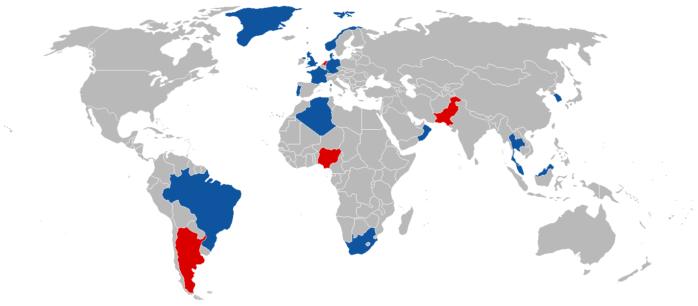 Operators of the Westland Lynx. Current operators in blue, former operators in red.